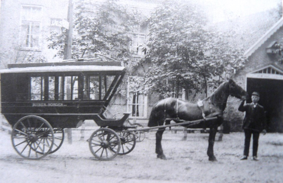 Omnibus van Sijpkes, lijndienst Buinen-Borger, 1895